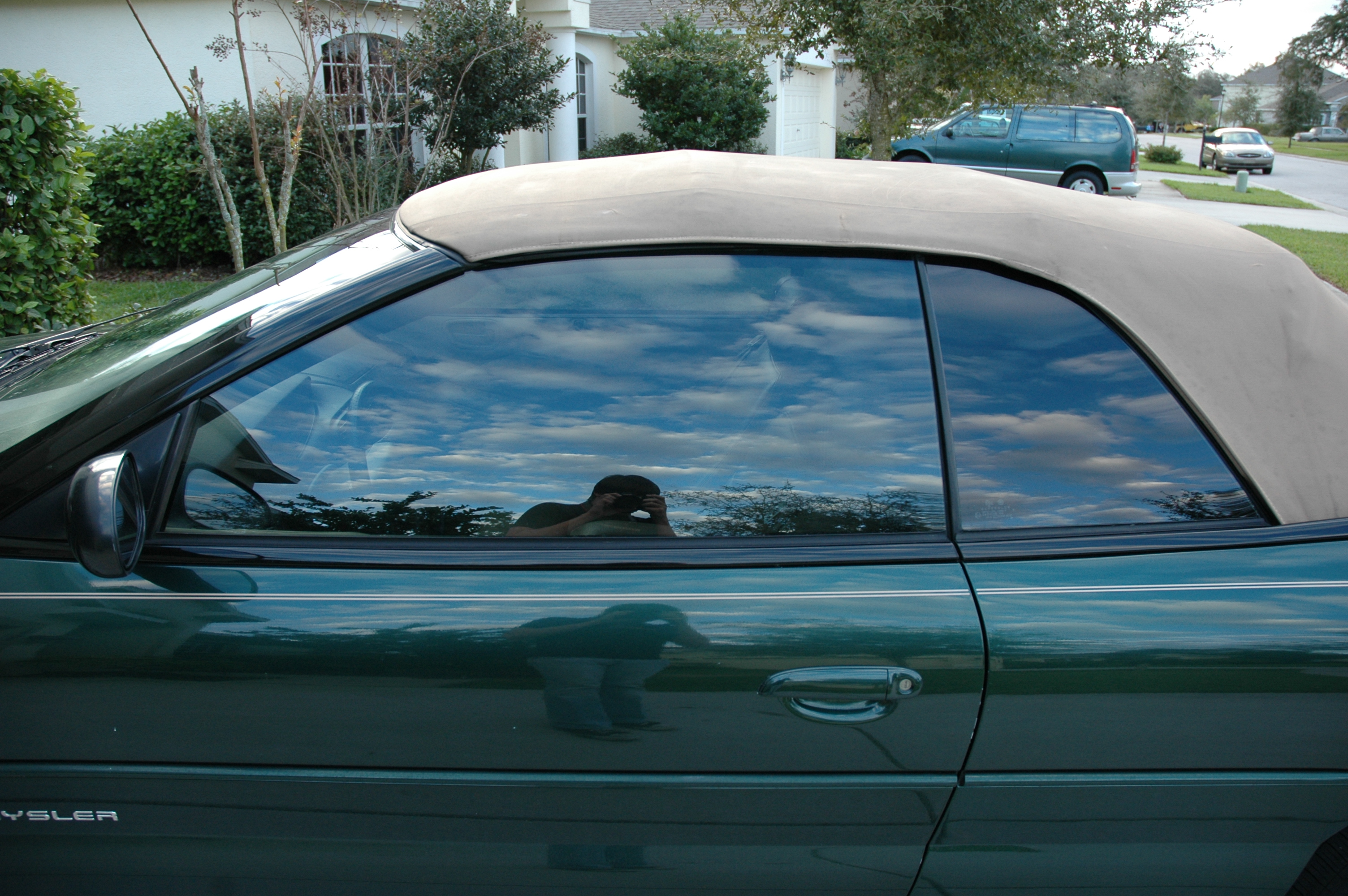 Author: Myself (User:Steevven1) Originally hosted on